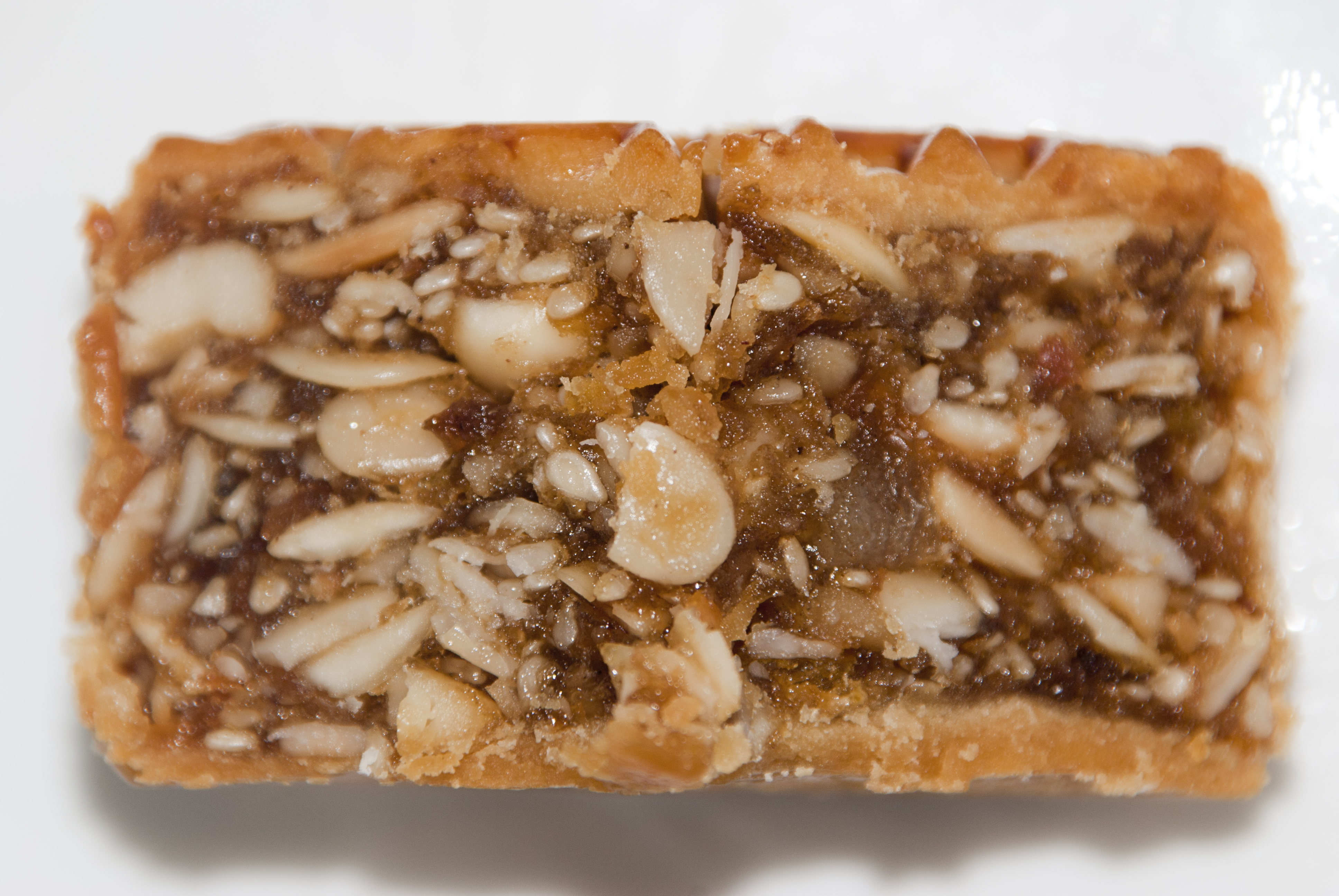 Mooncake with five smashed nuts (including smashed cashews, smashed sesame seed, smashed almonds, smashed peanuts, smashed egusi seeds)